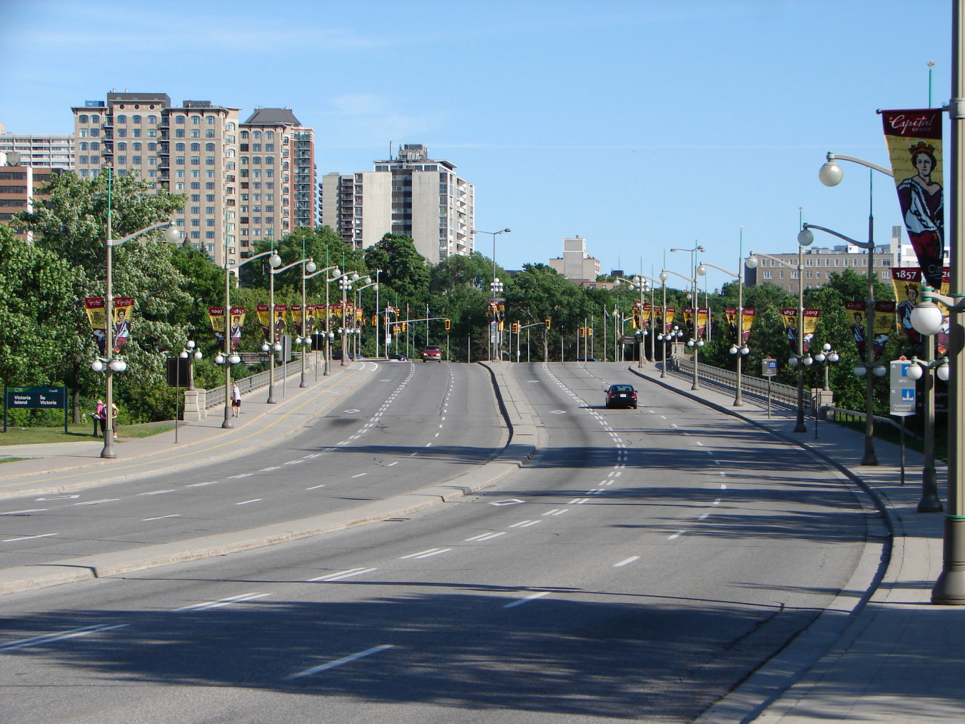 Portage Bridge between Ottawa (Ontario) and Hull (Quebec), Canada. Viewed towards Ottawa.